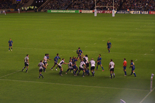 Prise le 18 septembre 2007 Rugby World Cup 2007 - Scotland v Romania